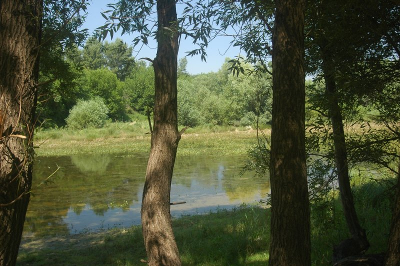 Swamps alongside Morava river